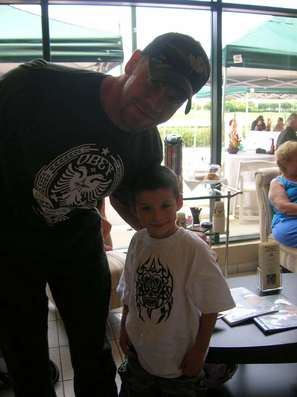 Christian Cage (left) with young fan